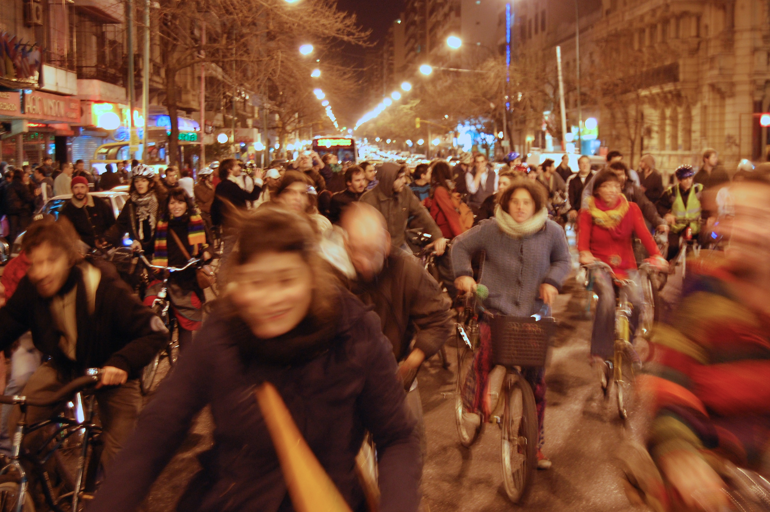 Taking over Rivadavia